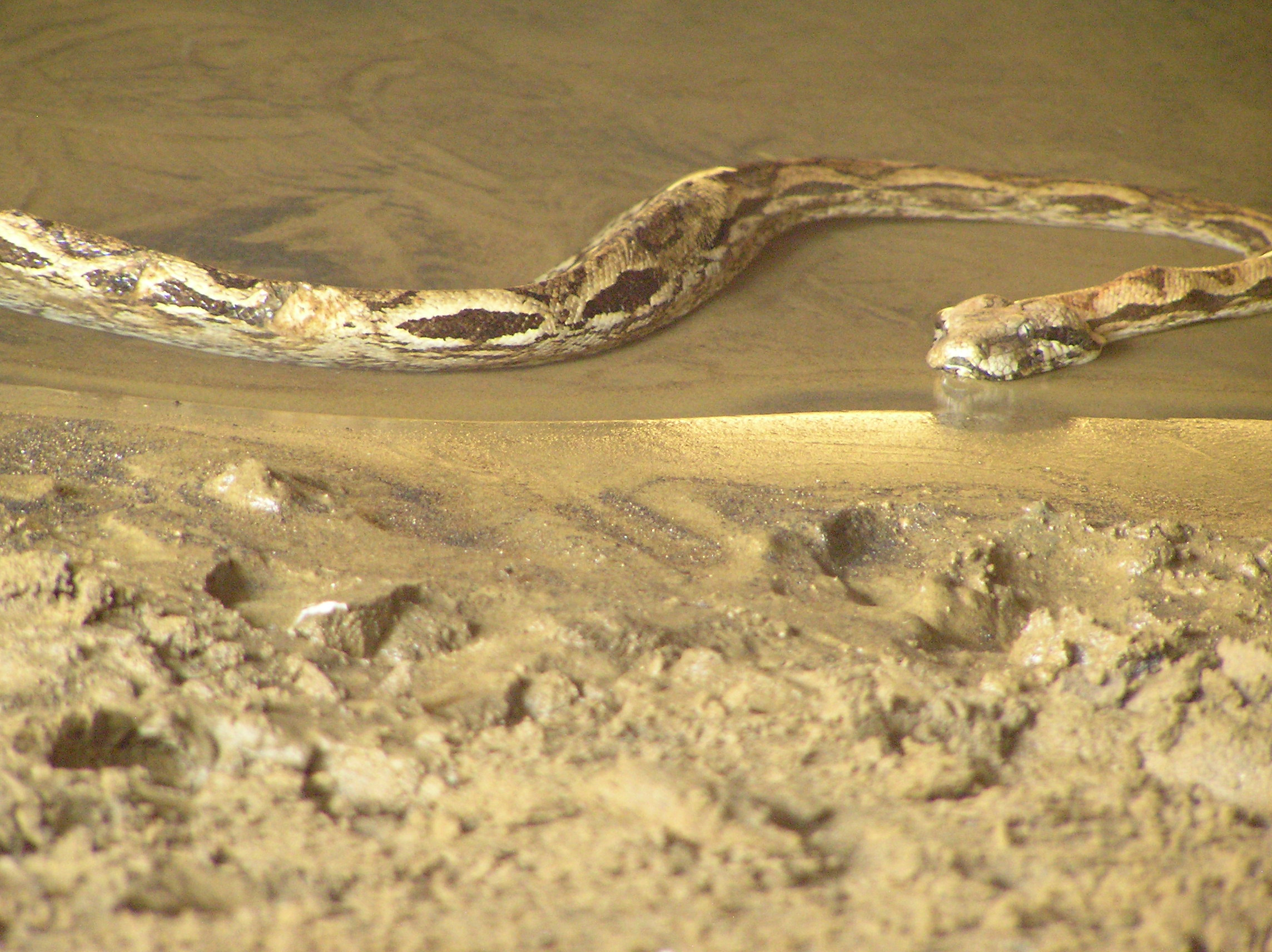 Madagascar ground boa (Acrantophis madagascariensis). On Madagascar you can spot these animals in the east and the north in dry forested area's often near water. And that is where we found her. After a morning of climbing we went swimming in a grotto not too far from the campsite at réserve spéciale de l'Ankarana'. She , according to Jacques our guide , she lived there in the area and often took a bath in the grotto.